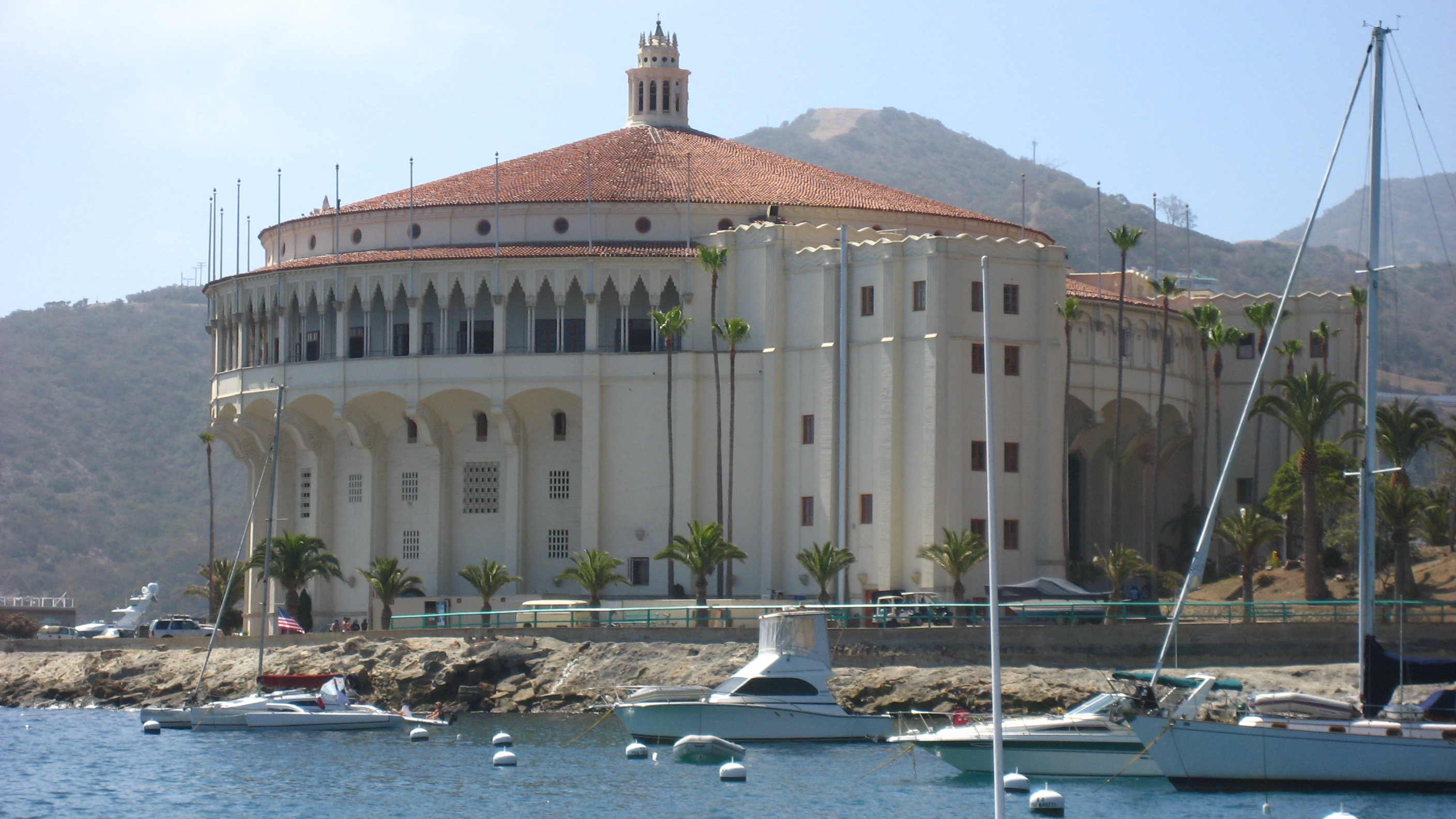 The Catalina Casino — from Descanso Bay, outside of Avalon Harbor. Taken from a short distance away, on a 1972 Coronado 27' sailboat, on July 26th, 2007. Shot With A Canon SD600